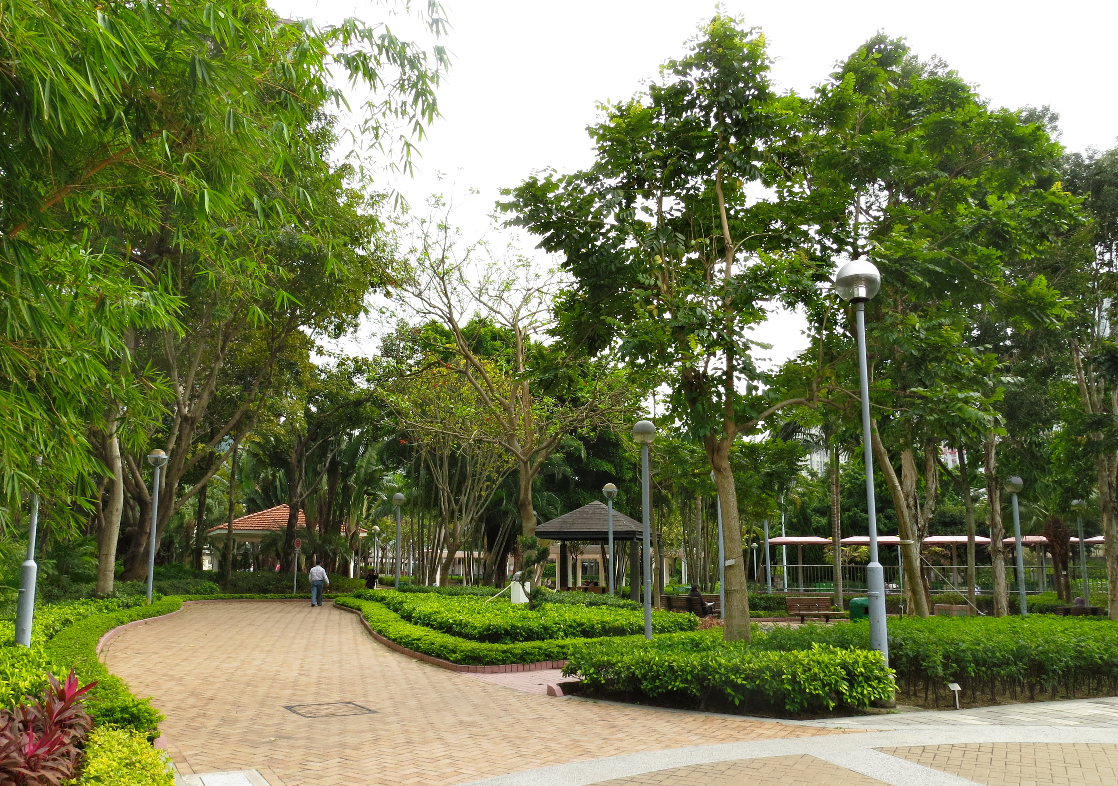 Sheung Ning Playground, Tseung Kwan O, Hong Kong.